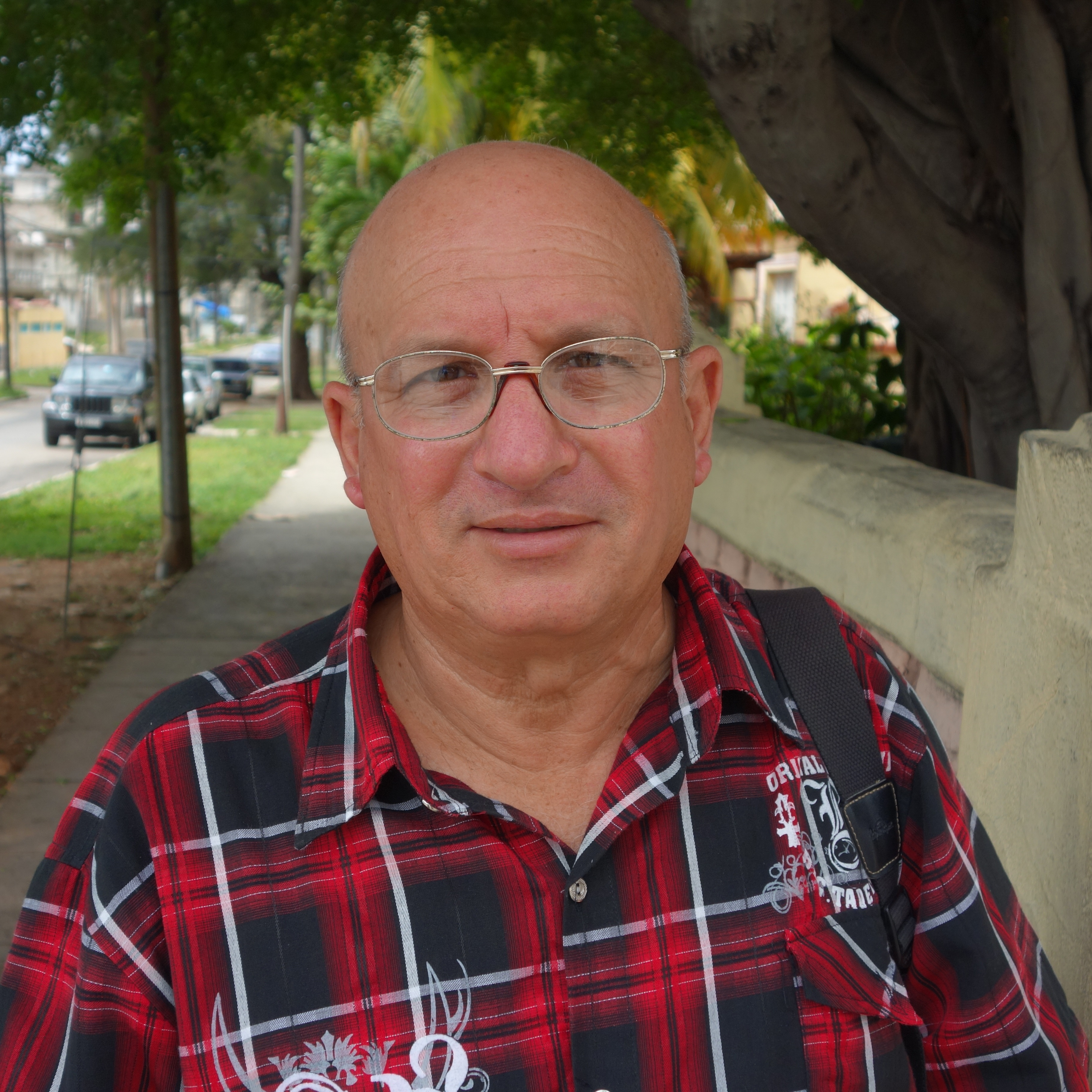 March 2014 in Havana